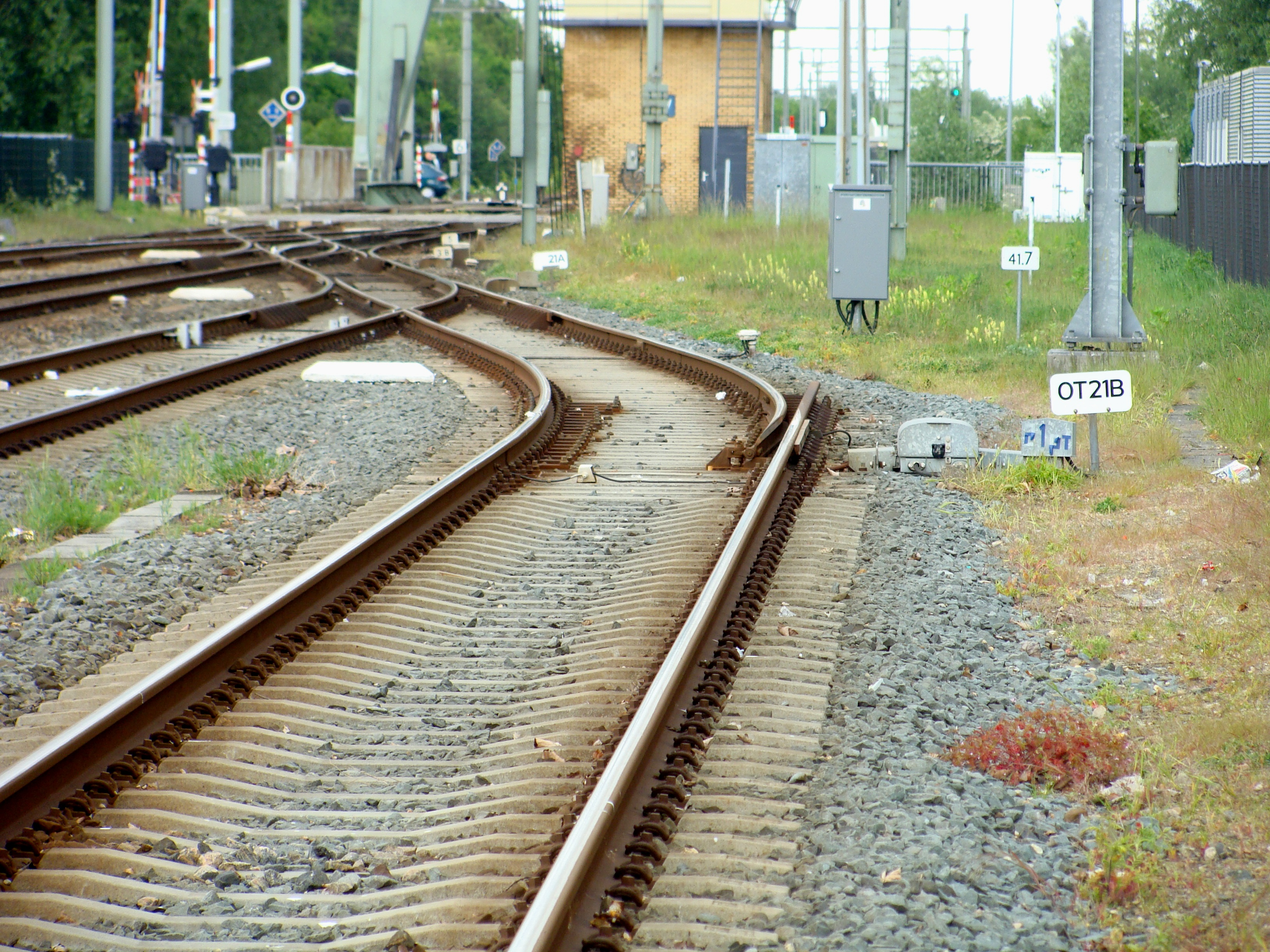 Derail (trap points) at Alkmaar railway station in the Netherlands.